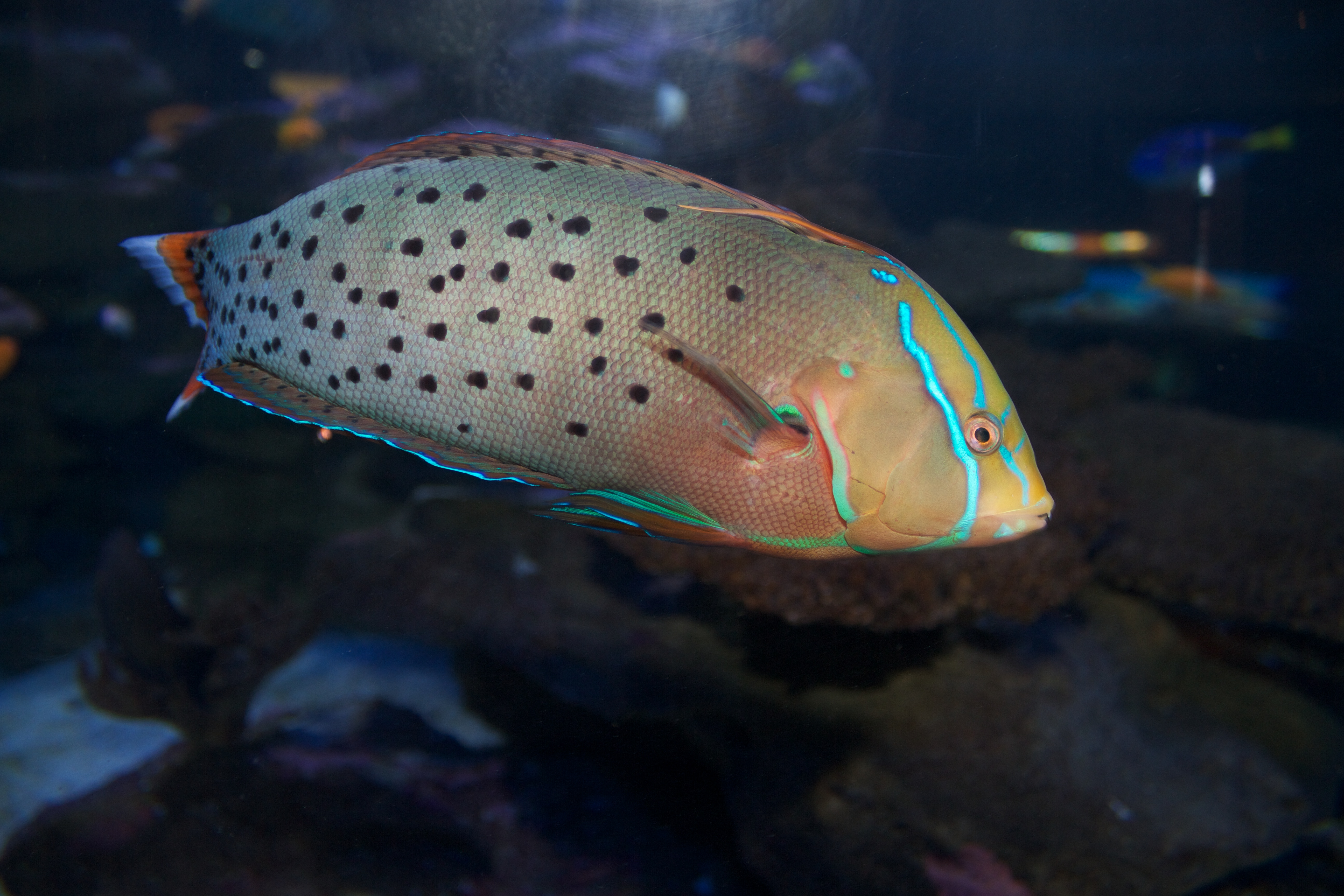 Queen coris (Coris formosa)